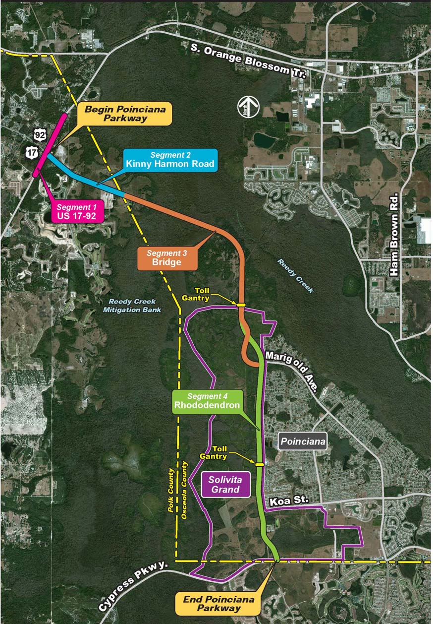 Map of the initial phase of the Poinciana Parkway